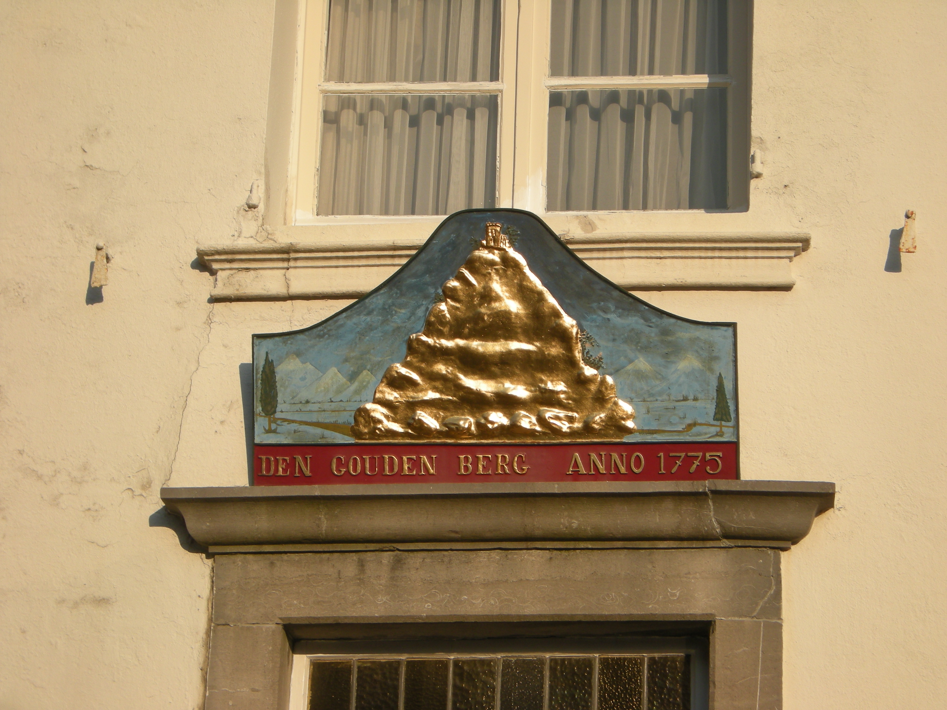 Detail Gouden Berg Inn, Tegelen